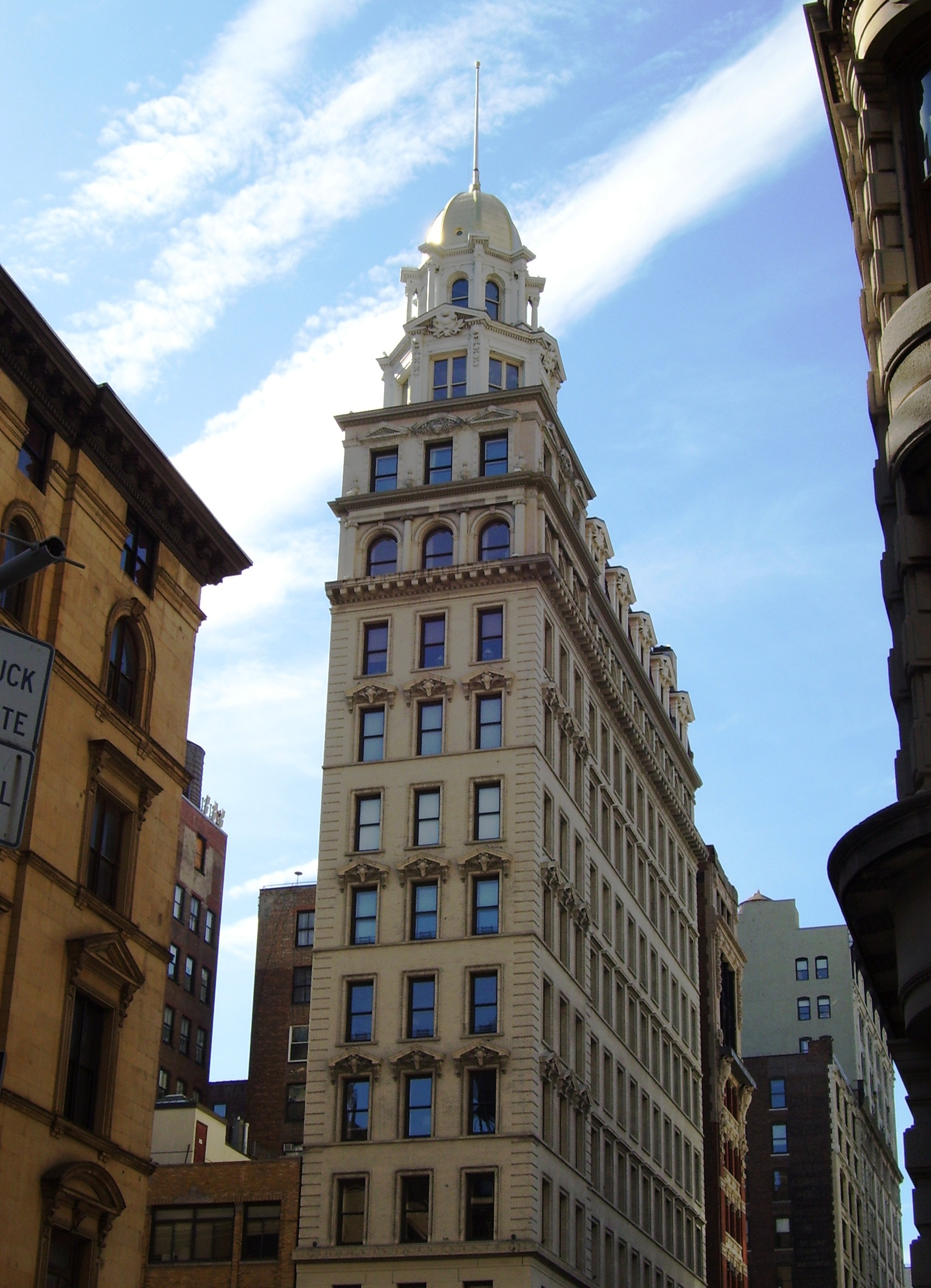 The Sohmer Piano Building (1897) at 170 Fifth Avenue in Manhattan, New York City, taken from 22nd Street & Broadway